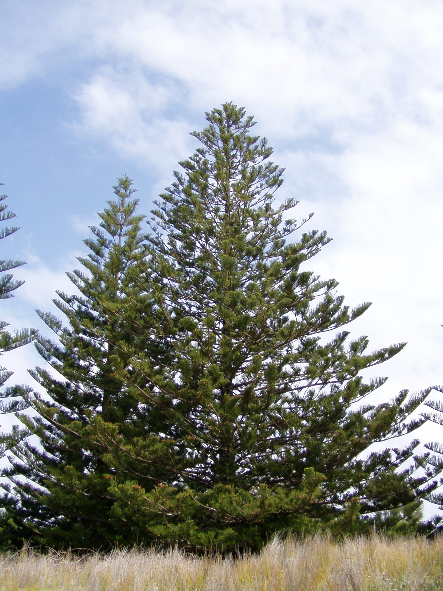 Description: Norfolk Island Pine (Araucaria heterophylla) Location: Near the beach at Murramarang National Park, South Durras, New South Wales, Australia Date: 2005-09-24 Source: picture taken by Danielle Langlois Licence: Released under GFDL and Creative Commons licenses by the photographer hi